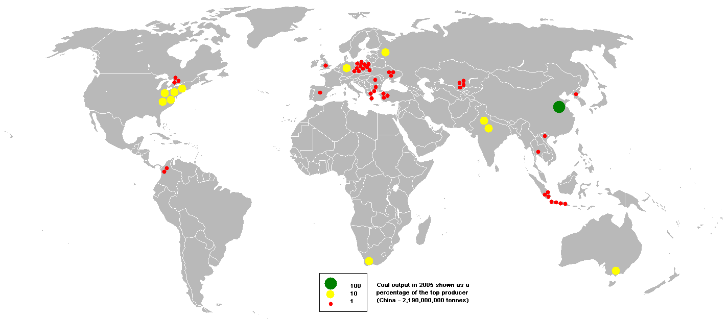 This bubble map shows the global distribution of coal output in 2005 as a percentage of the top producer (China - 2,190,000,000 tonnes). This map is consistent with incomplete set of data too as long as the top producer is known. It resolves the accessibility issues faced by colour-coded maps that may not be properly rendered in old computer screens. Data was extracted on 3rd June 2007. Source - Based on Image:BlankMap-World.png